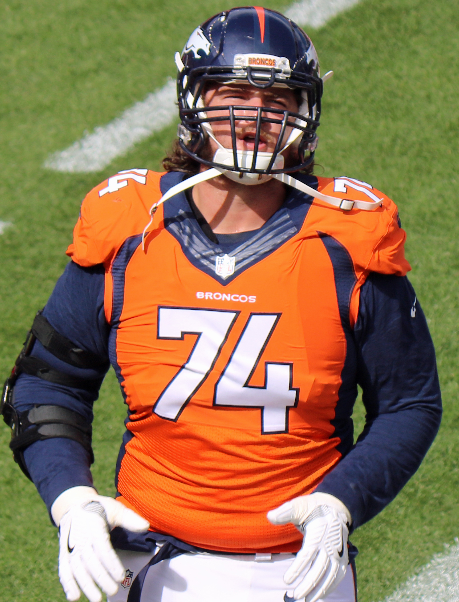 Ty Sambrailo, a player on the National Football League.